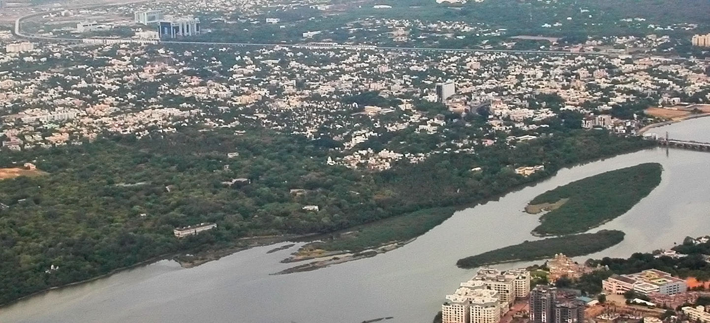 Aerial view of the Adyar Estuary and Adyar. On the top ind is Tidel Park and the Chennai MRTS. The gardens belong to the Theosophical Society.